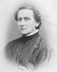 Portrait of Rev. Anthony F. Ciampi, president of the College of the Holy Cross in Worcester, Massachusetts